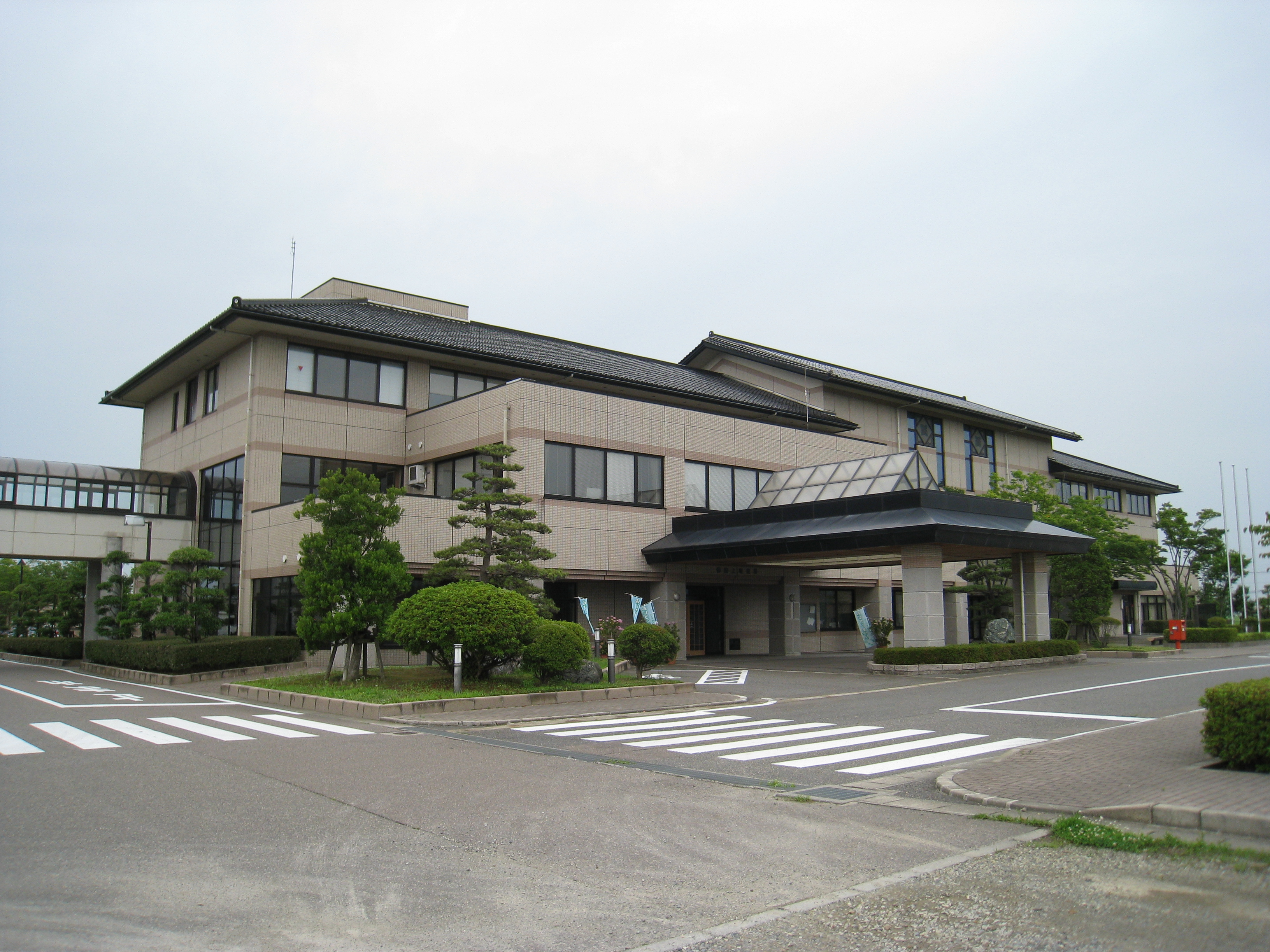 Tagami Townhall, Niigata-pref, Japan